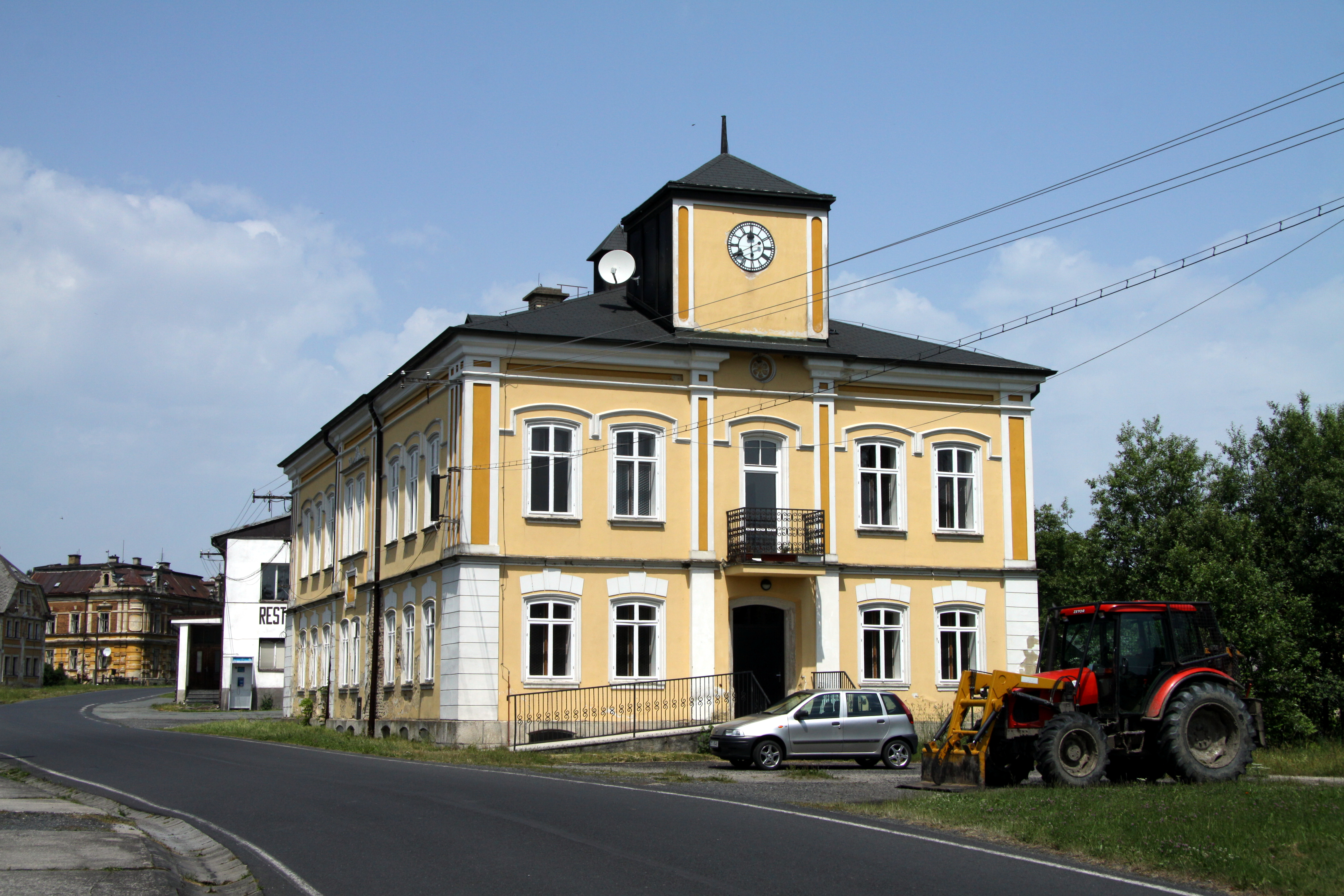 Building in Prameny village in Cheb District, Czech Republic